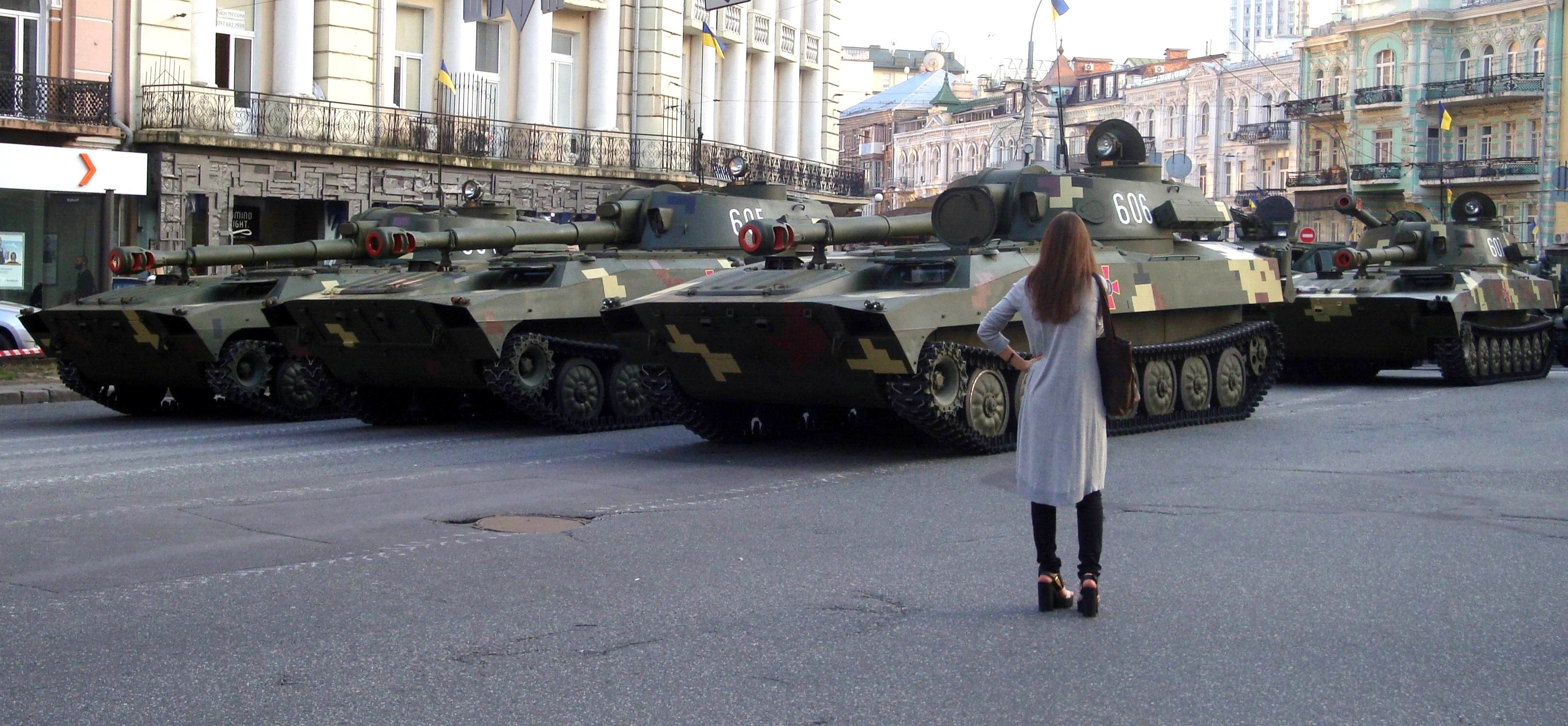 Military parade, Kyiv 2016